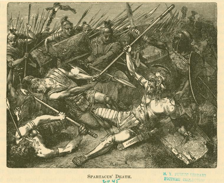 Spartacus' death